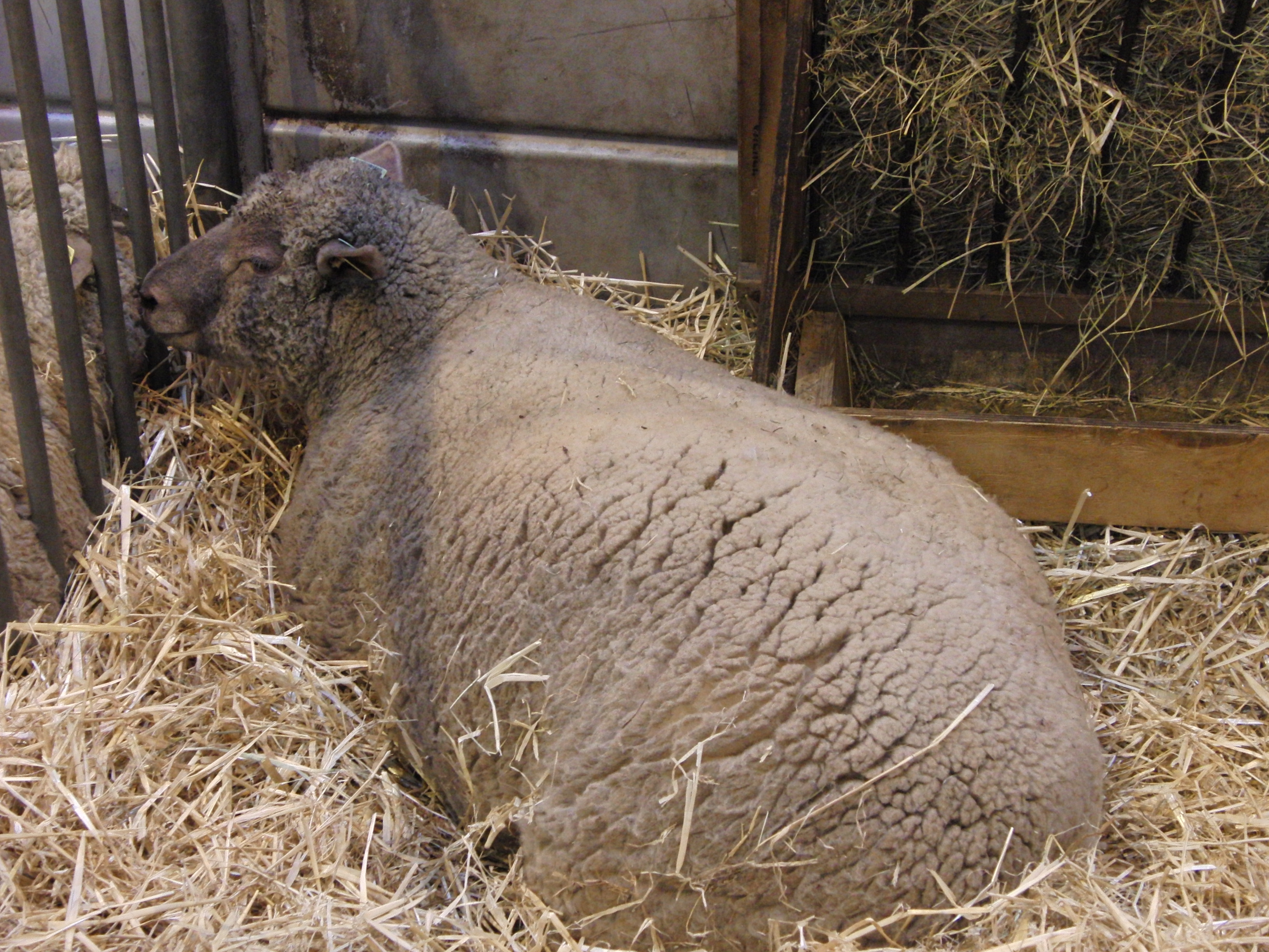 Vendéen sheep - Salon international de l'agriculture 2011, Paris, France